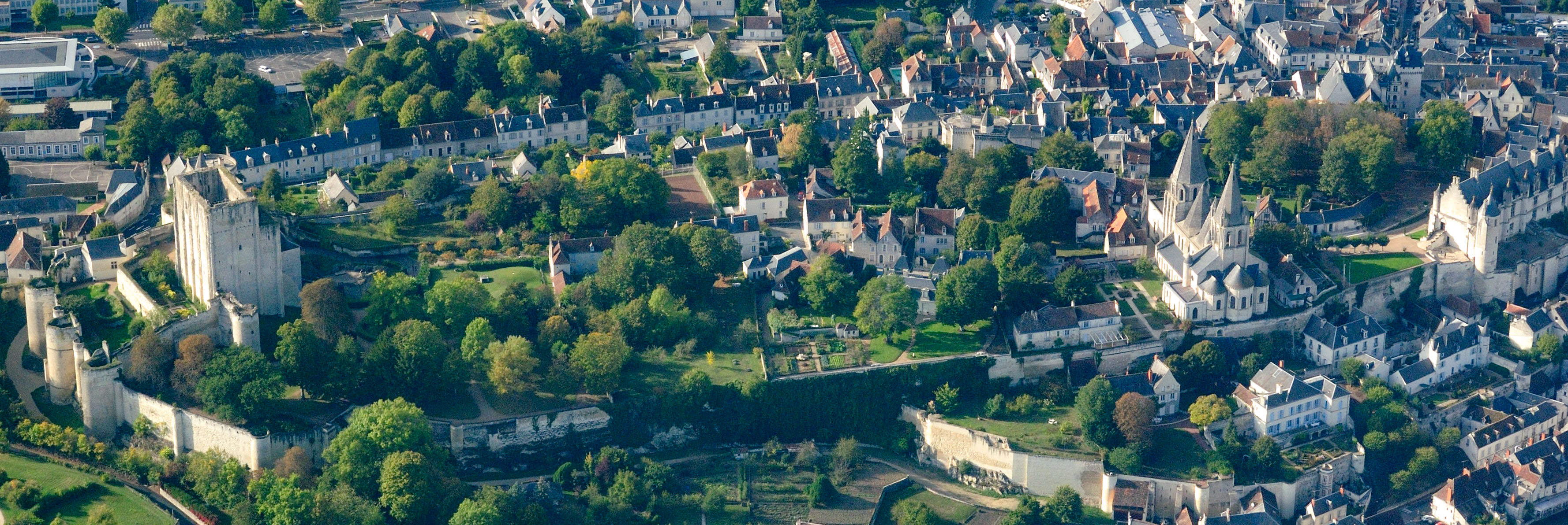 Aerial view from the South toward the castle hill of Loches (Indre-et-Loire department, France). From left to right: dungeon, church of Saint-Ours and Royal Lodge. Nikon D60 f=55mm f/9 at 1/320s ISO 400. Processed using Nikon ViewNX 1.3.0 and GIMP 2.6.6.